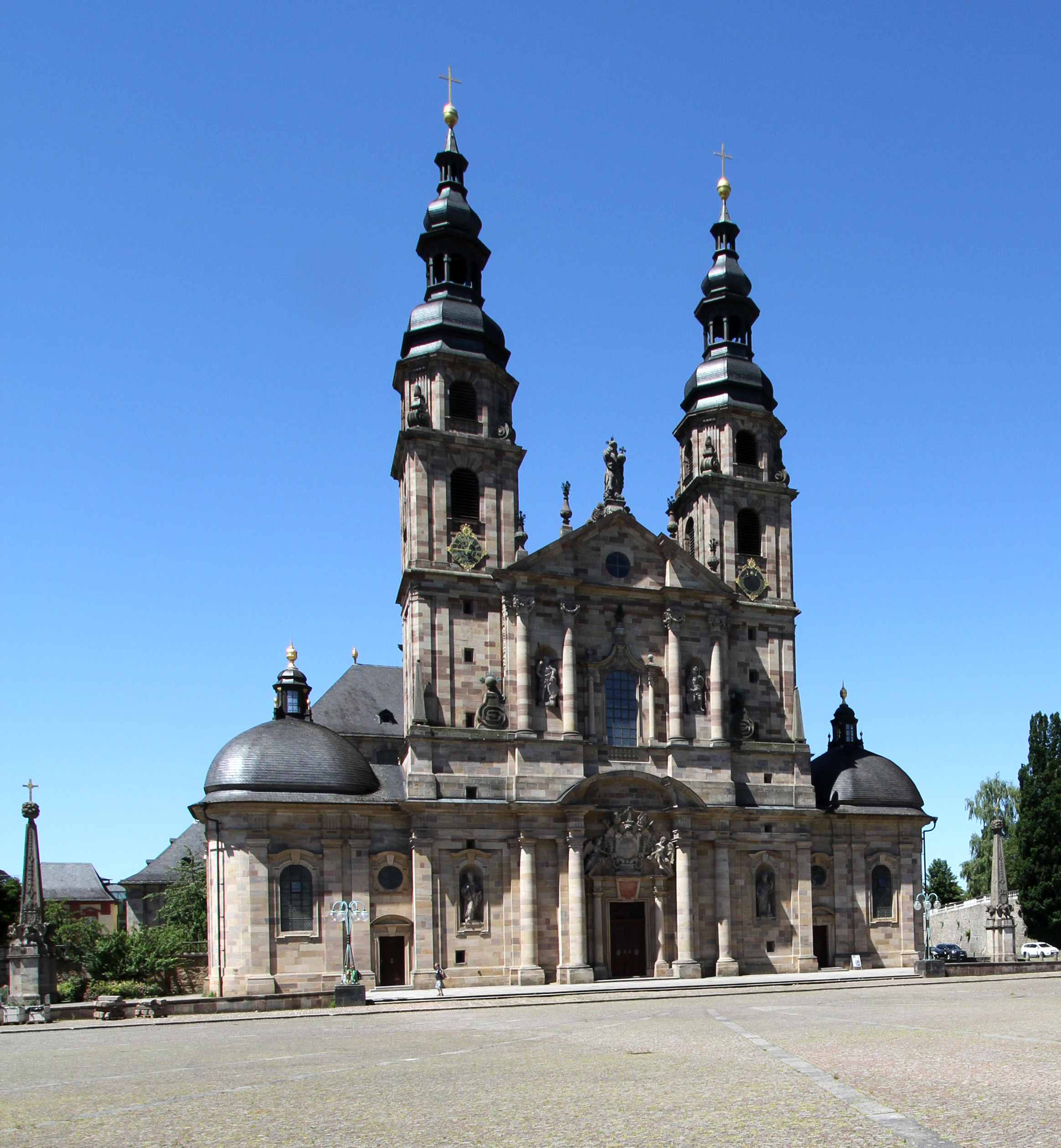 Fulda Cathedral